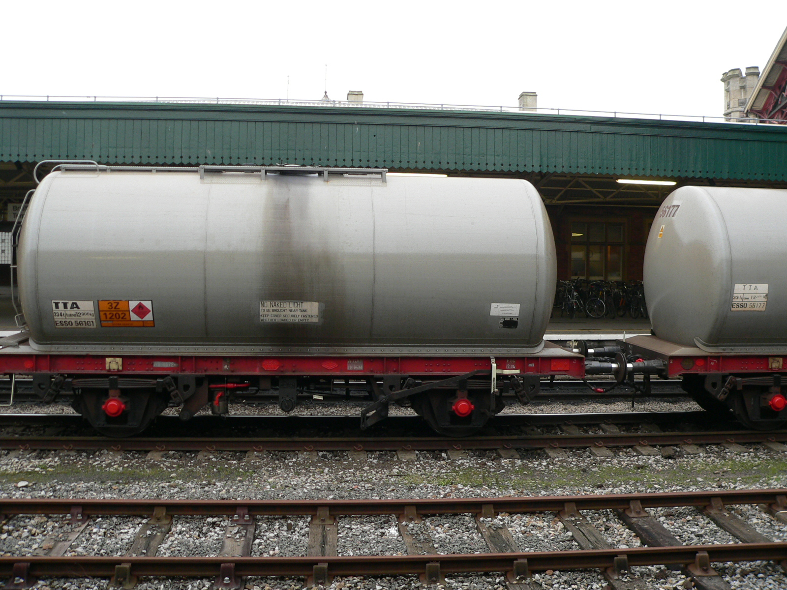 One of twelve or thirteen tanker wagons of a southbound freight service detained at a red signal at the southern end of Bristol Temple Meads station.